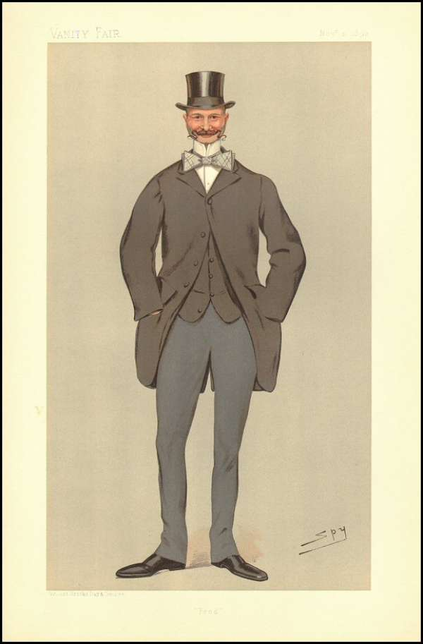 Caricature of The Hon Frederic Morgan MP. Caption read "Fred".